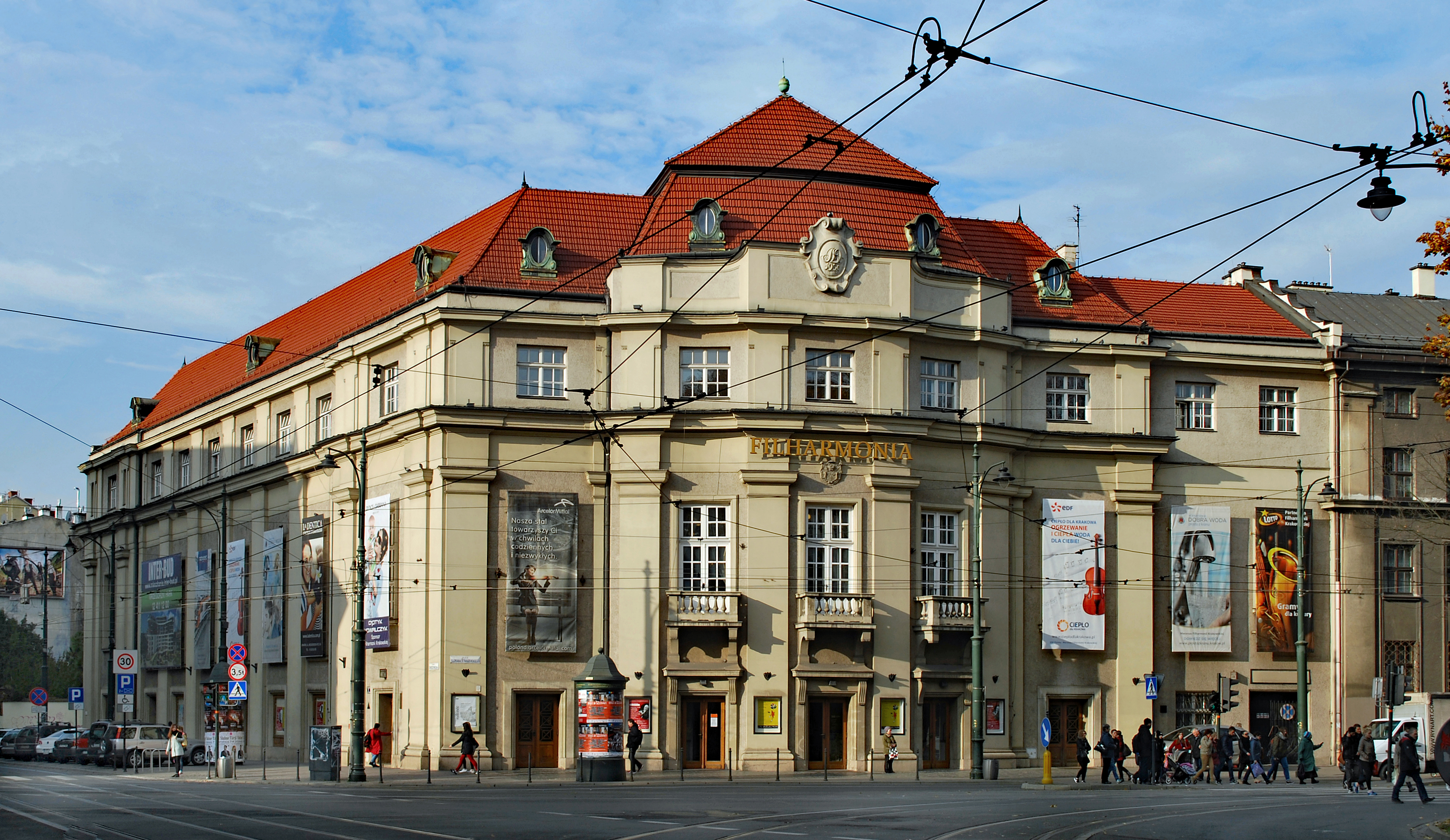 Krakow Philharmonic Hall, 1 Zwierzyniecka street, Krakow, Poland